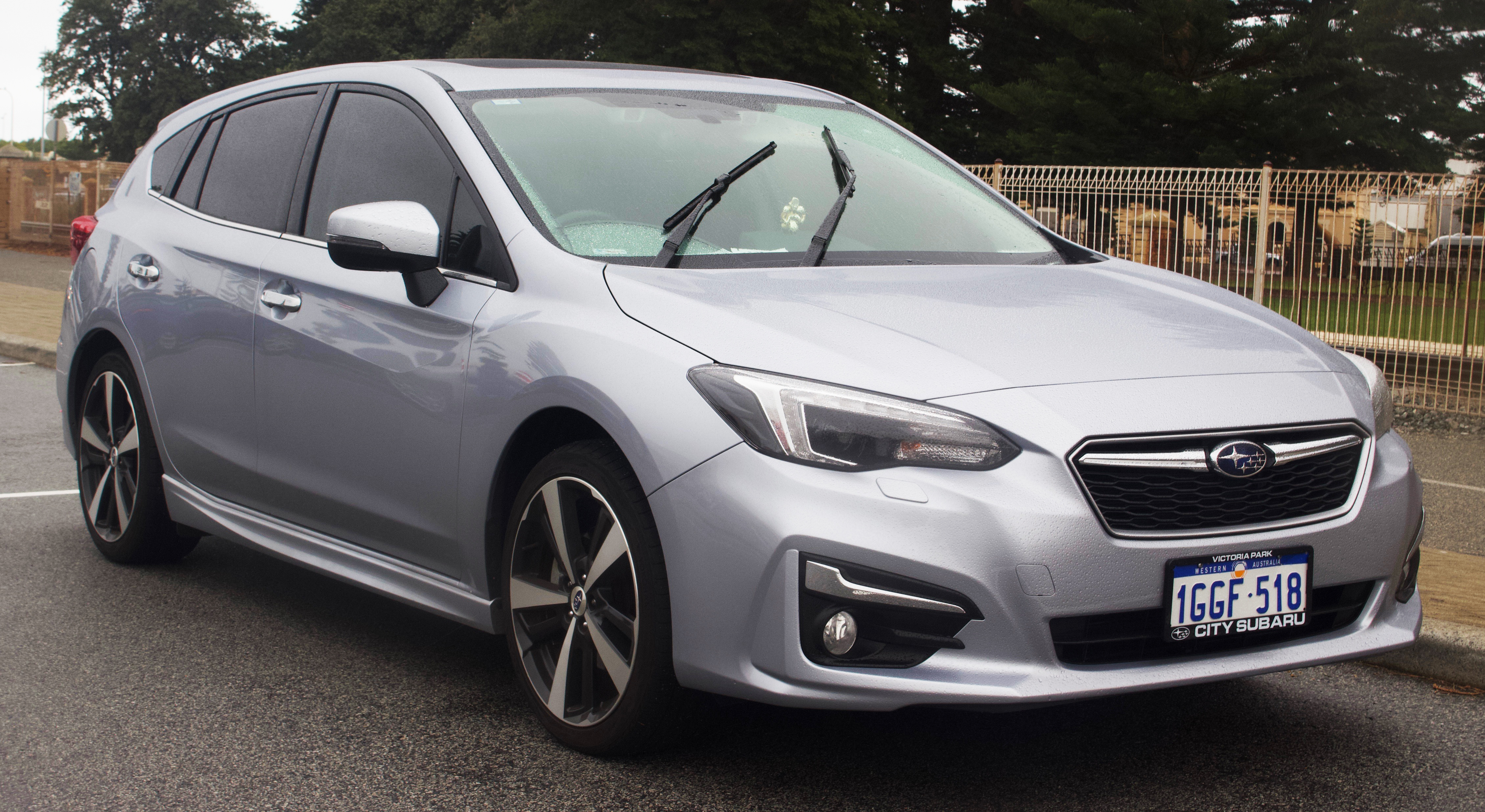 2017 Subaru Impreza (GT7) 2.0i-S hatchback. Photographed in Fremantle, Western Australia, Australia.